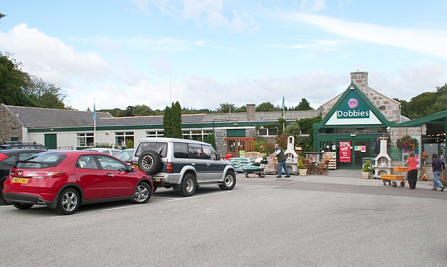 Dobbies Garden Centre, Aberdeen A very popular garden centre complete with seeds, bulbs, plants, tools, summerhouses/conservatories and a cafe. Off the Hazeldene Road.